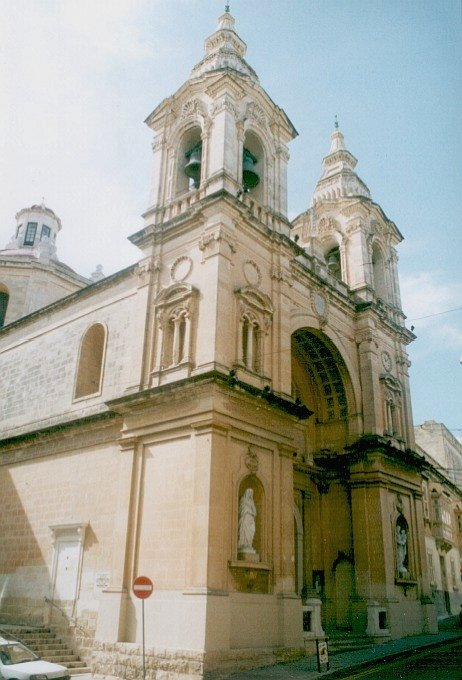 The Stella Maris Church and mother parish of Sliema